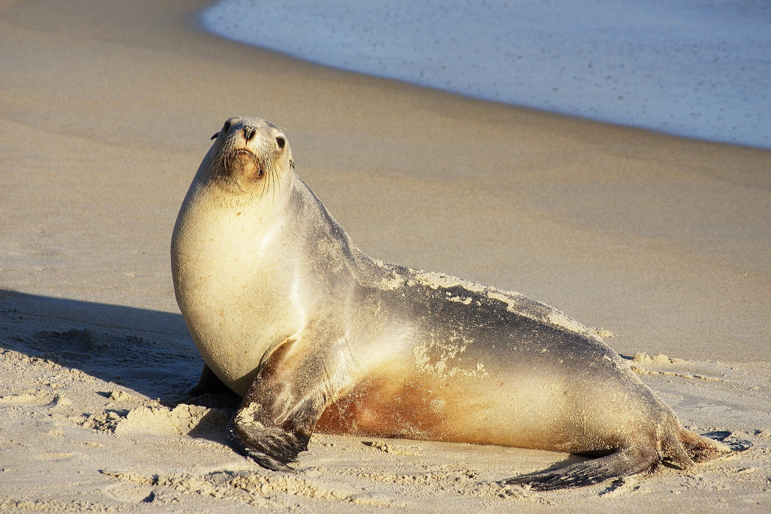 Young sea-lion posing on a sand beach in evening sunshine, looking at the camera